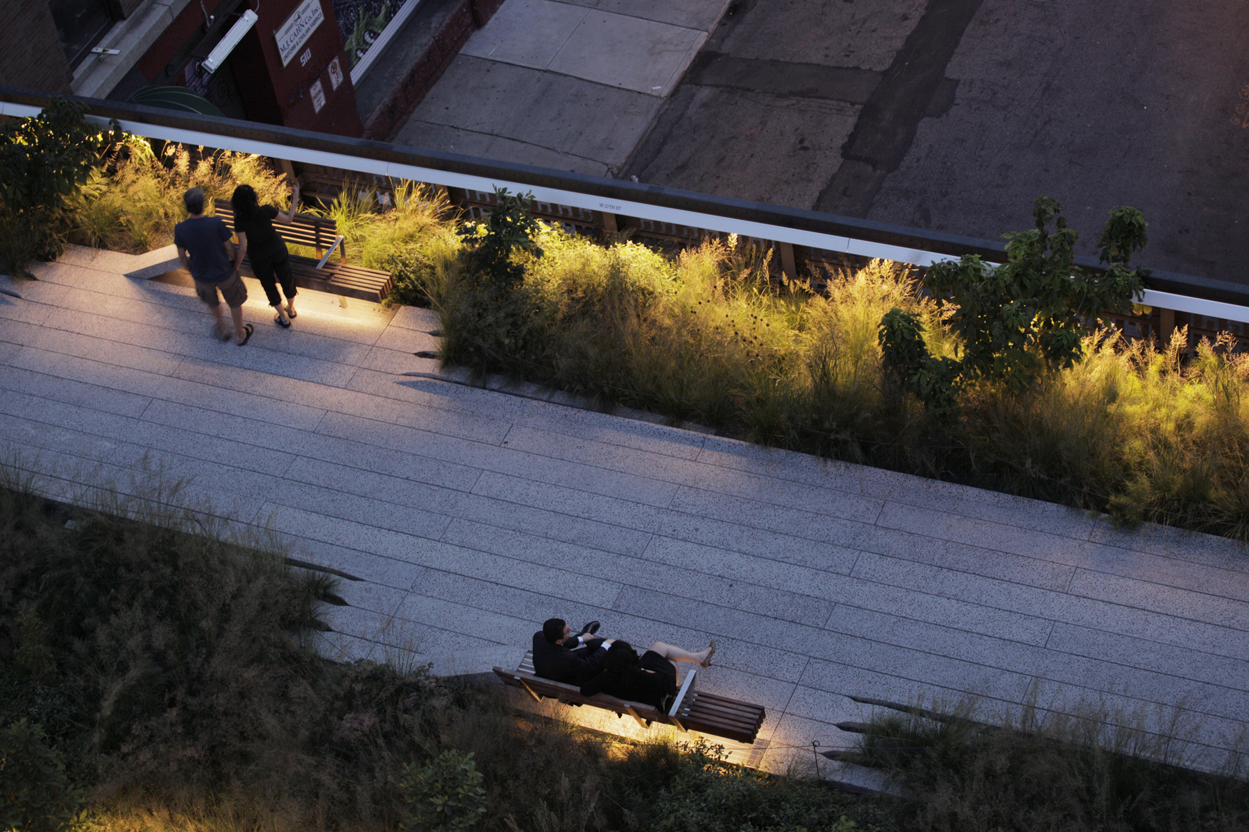 A view of the high line in new york city from above